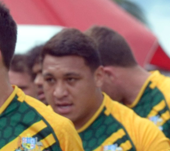 PMs XIII